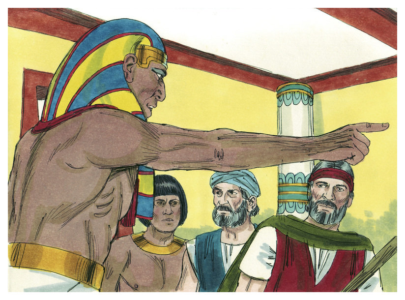 Biblical illustration of Book of Exodus Chapter 11